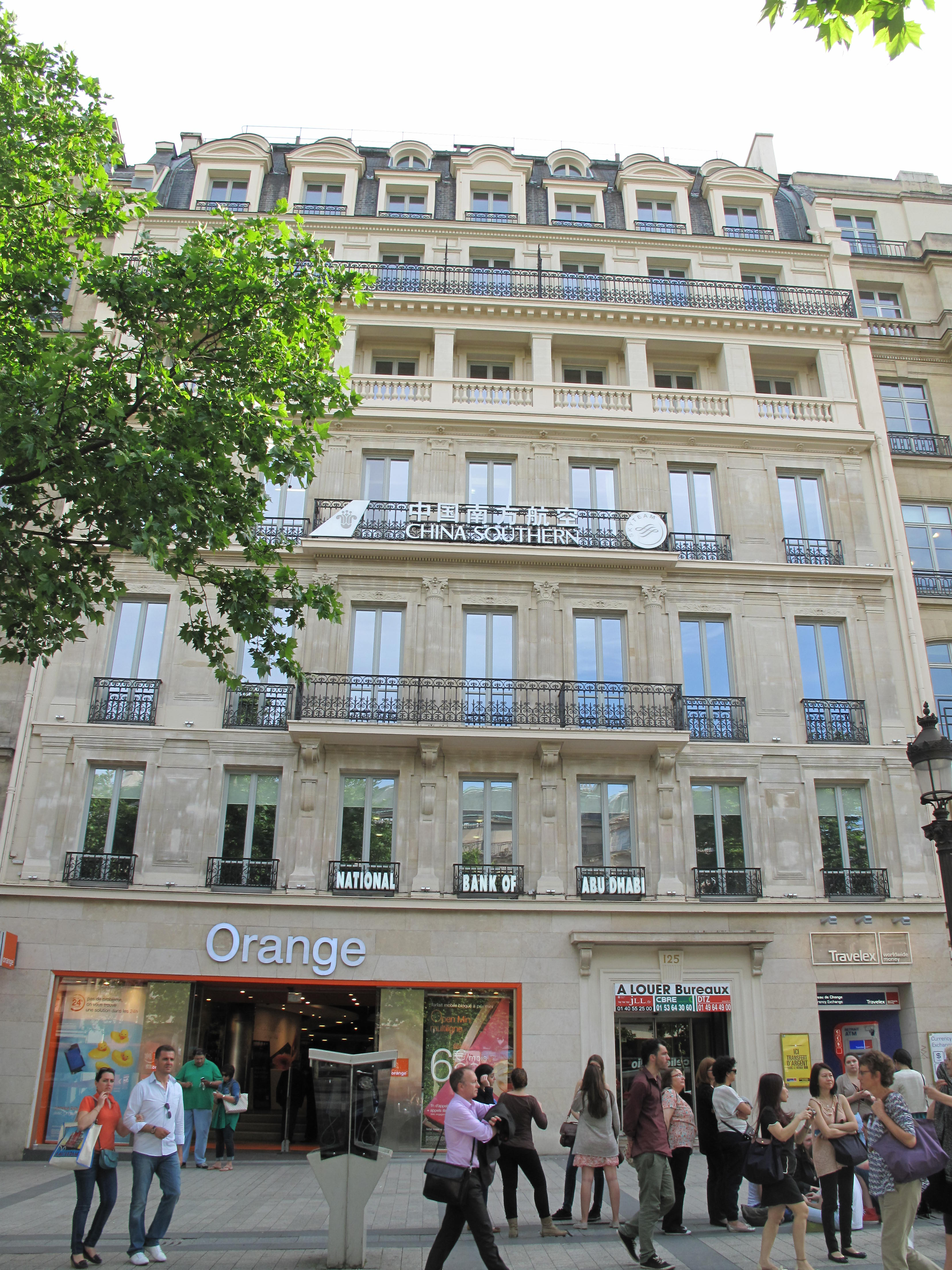 Building of the 125 avenue des Champs-Élysées, Paris 16th arr., French head office of China Southern Airlines.